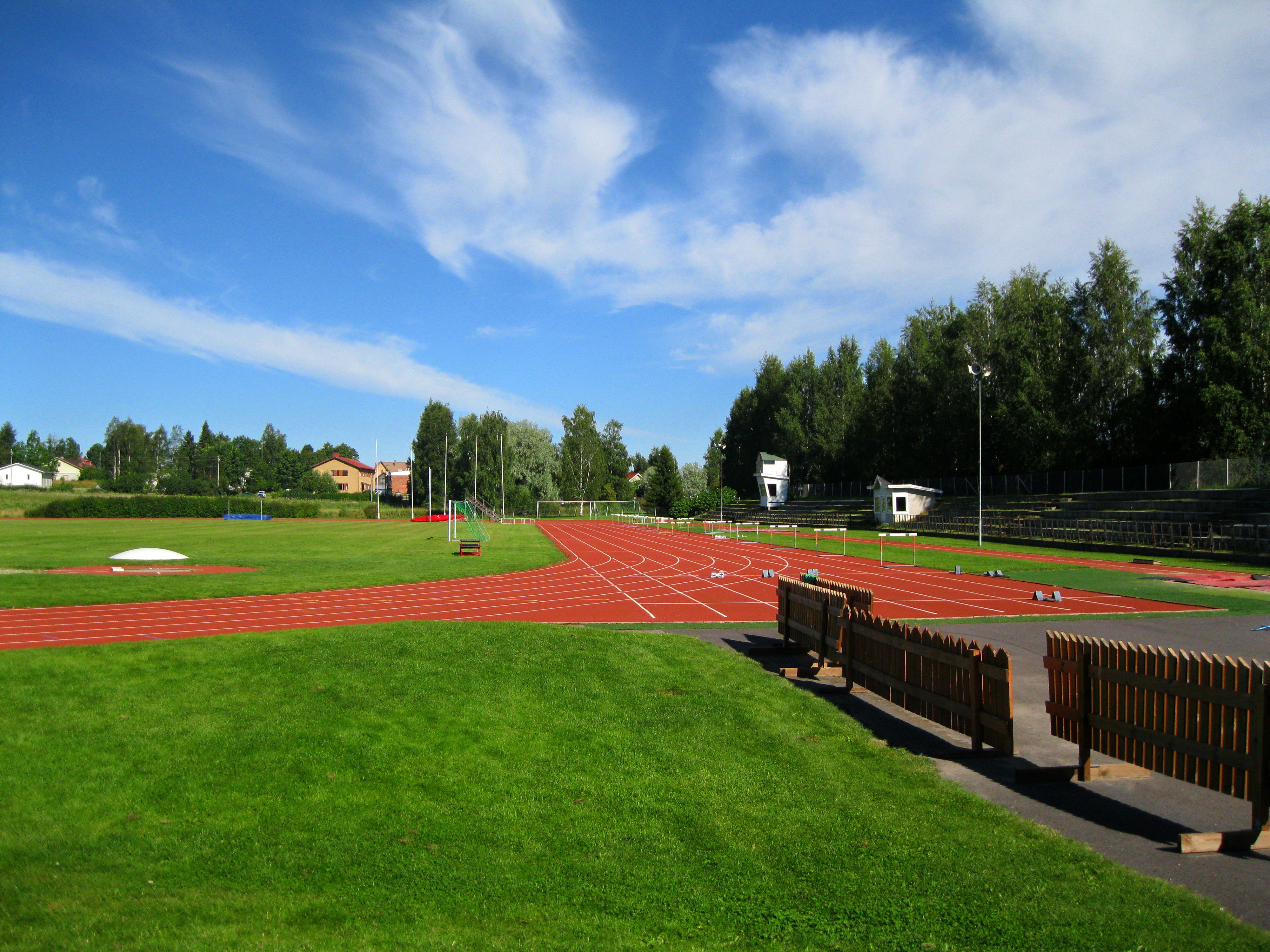 Athletic field Stadio Nissi in Lappajärvi, Finland.